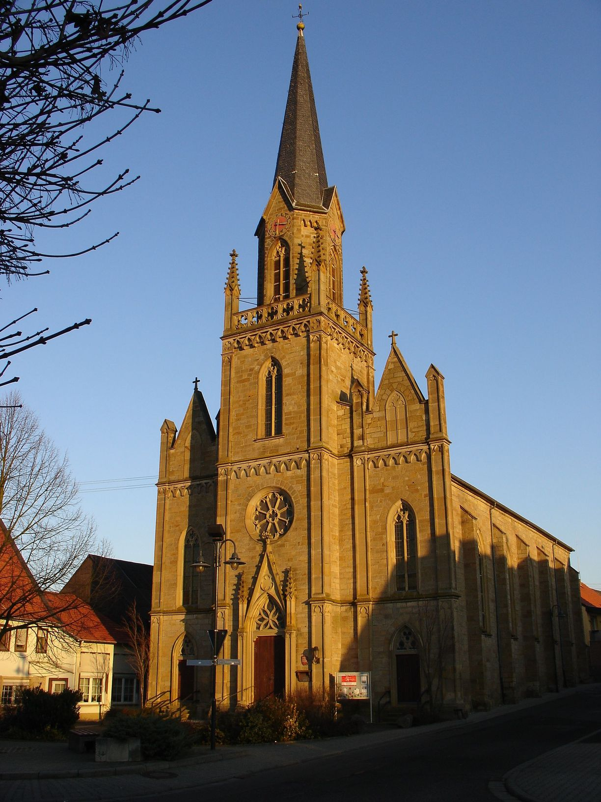 Germany/Rhineland-Palatinate/Staudernheim - Picture January 2007 - Staudernheim evangelic church from 1871